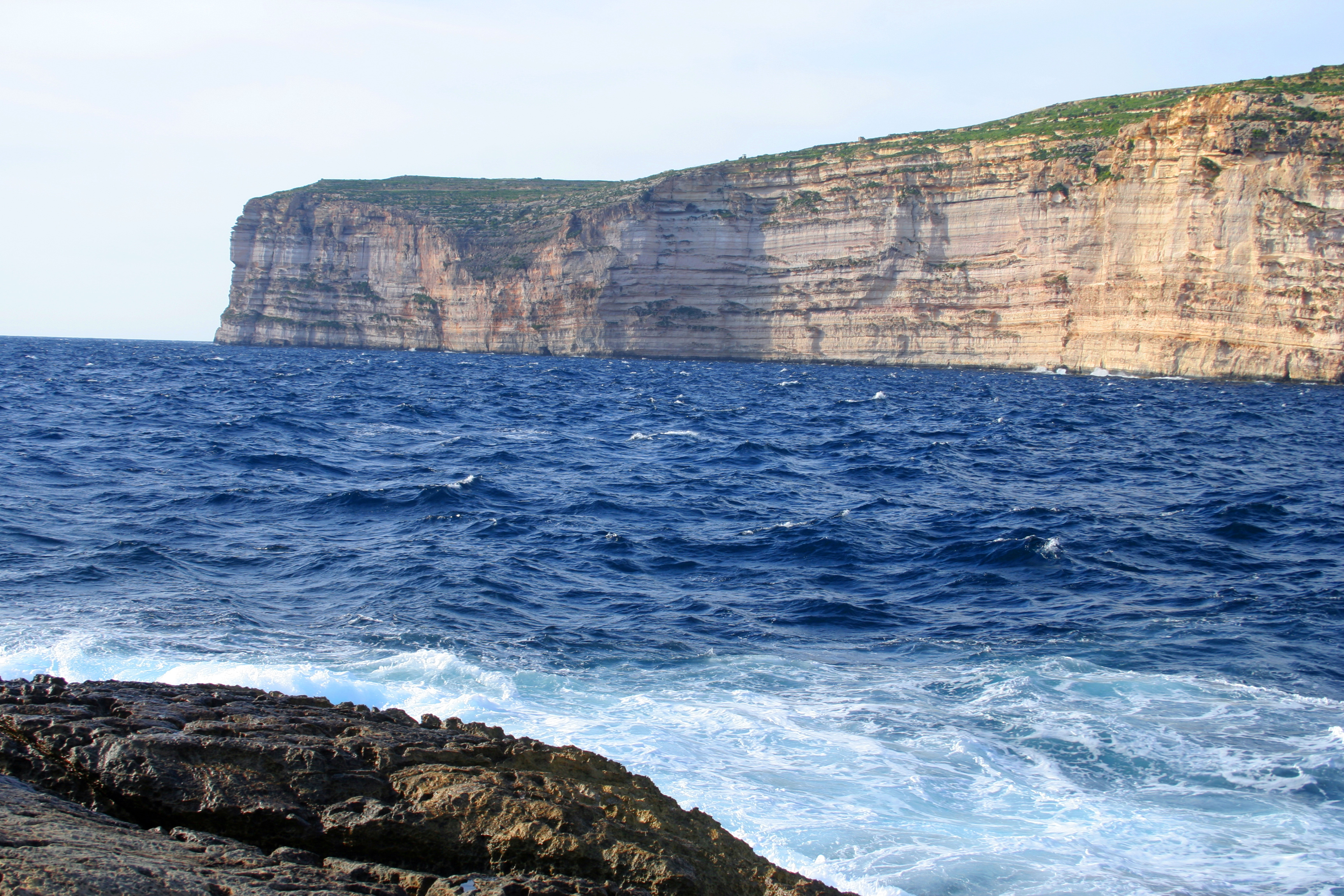 Gozo, west coast, cliffs